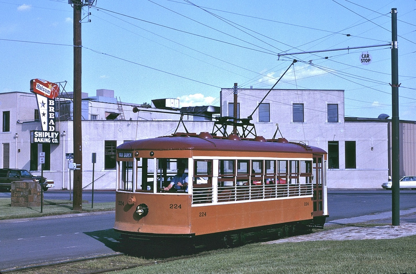 Fort Smith streetcar No. 224, a "Birney Safety Car" built in 1926 for Fort Smith, Arkansas, is listed on the U.S. National Register of Historic Places (NRHP). It operates at the Fort Smith Trolley Museum. It is pictured stopped along the south side of Garland Avenue just west of 6th Street, in front of the entrance to the Fort Smith National Cemetery (out of view, to the right), about to depart. This was the trolley line's east end from 1994 until 2005, when the line was extended a short distance east, across 6th Street, to a terminus between 6th and 7th streets. (Note: The street immediately next to the streetcar in this photograph, Garland Ave., has been realigned slightly since the photo was taken, and there is now a brick-paved boarding area and also a sidewalk between the track and the street.)